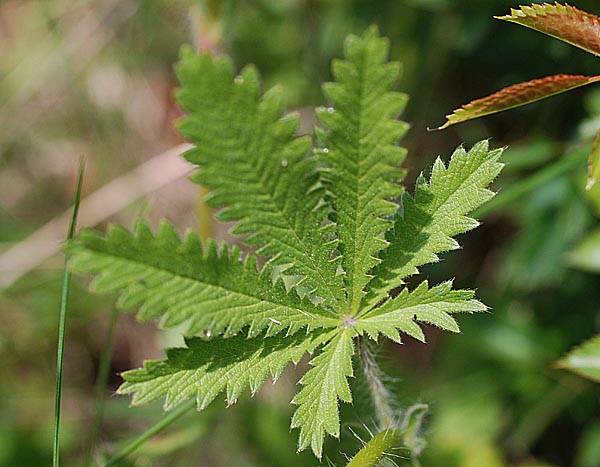 Hohes Fingerkraut (Potentilla recta)